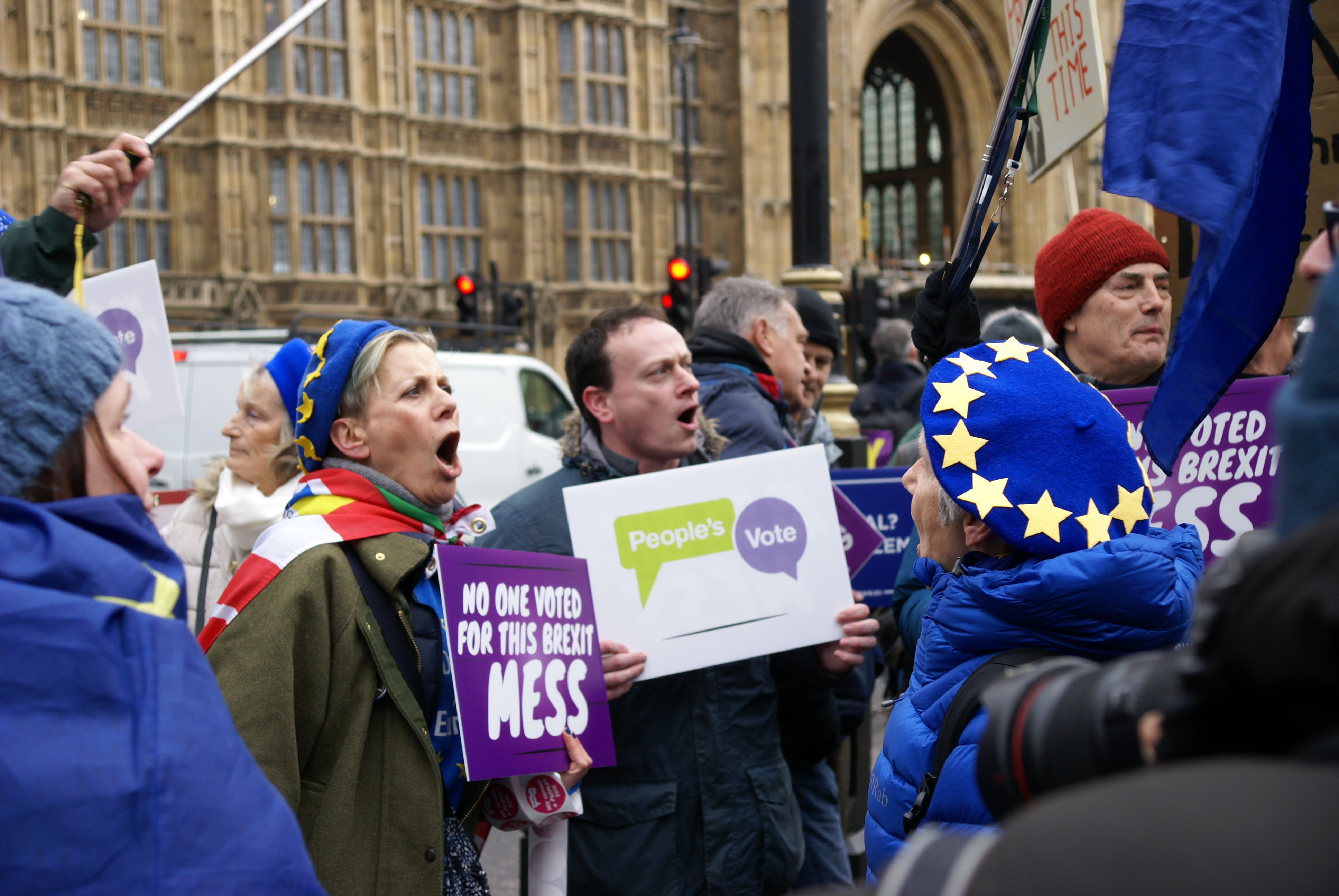 Demonstrators near the Houses of Parliament, London.